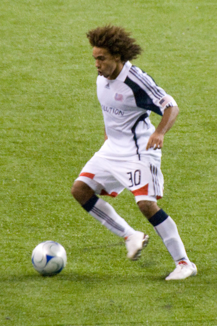 Kevin Alston of New England Revolution vs Seattle Sounders.